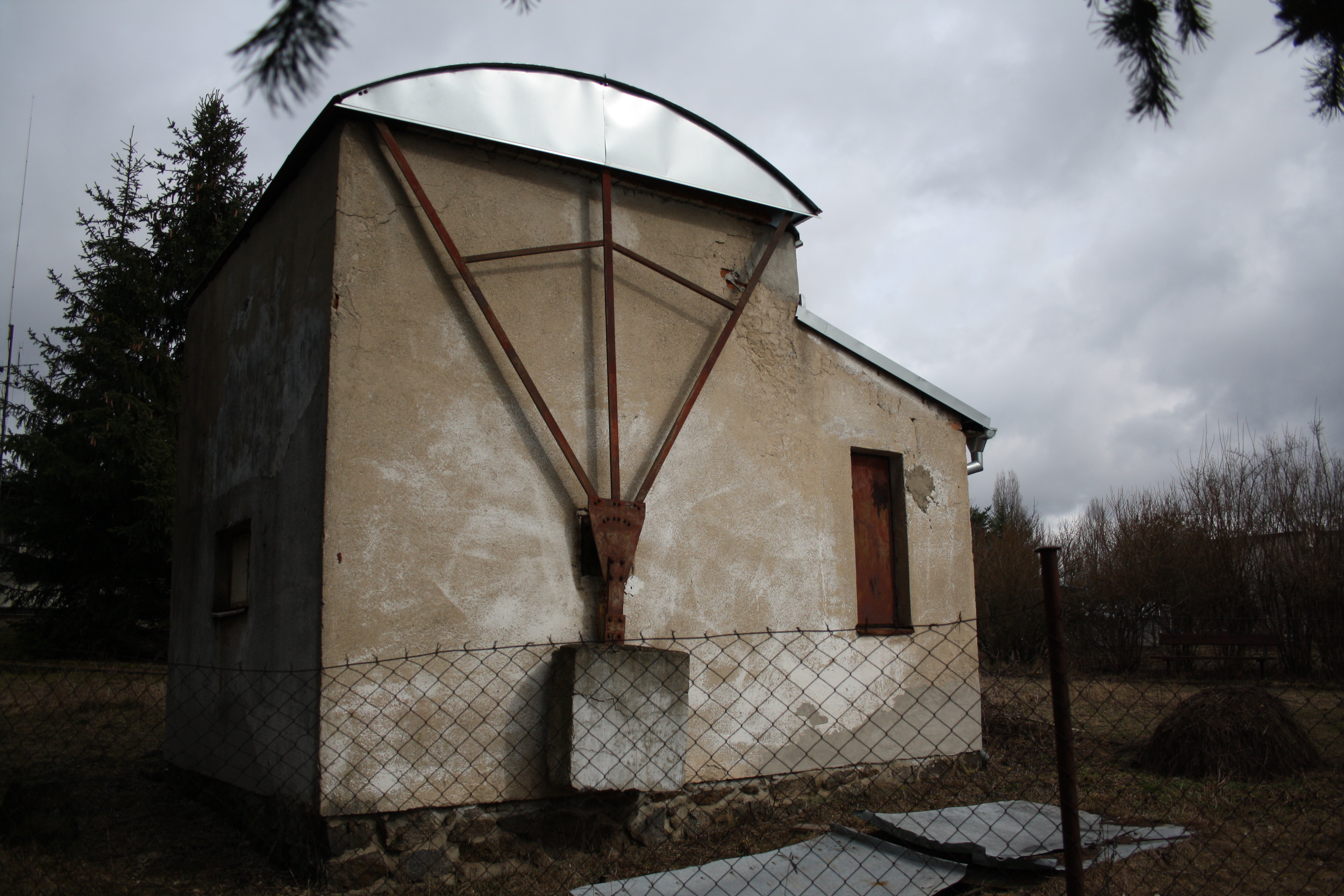 Exterior of observatory in Třebíč.